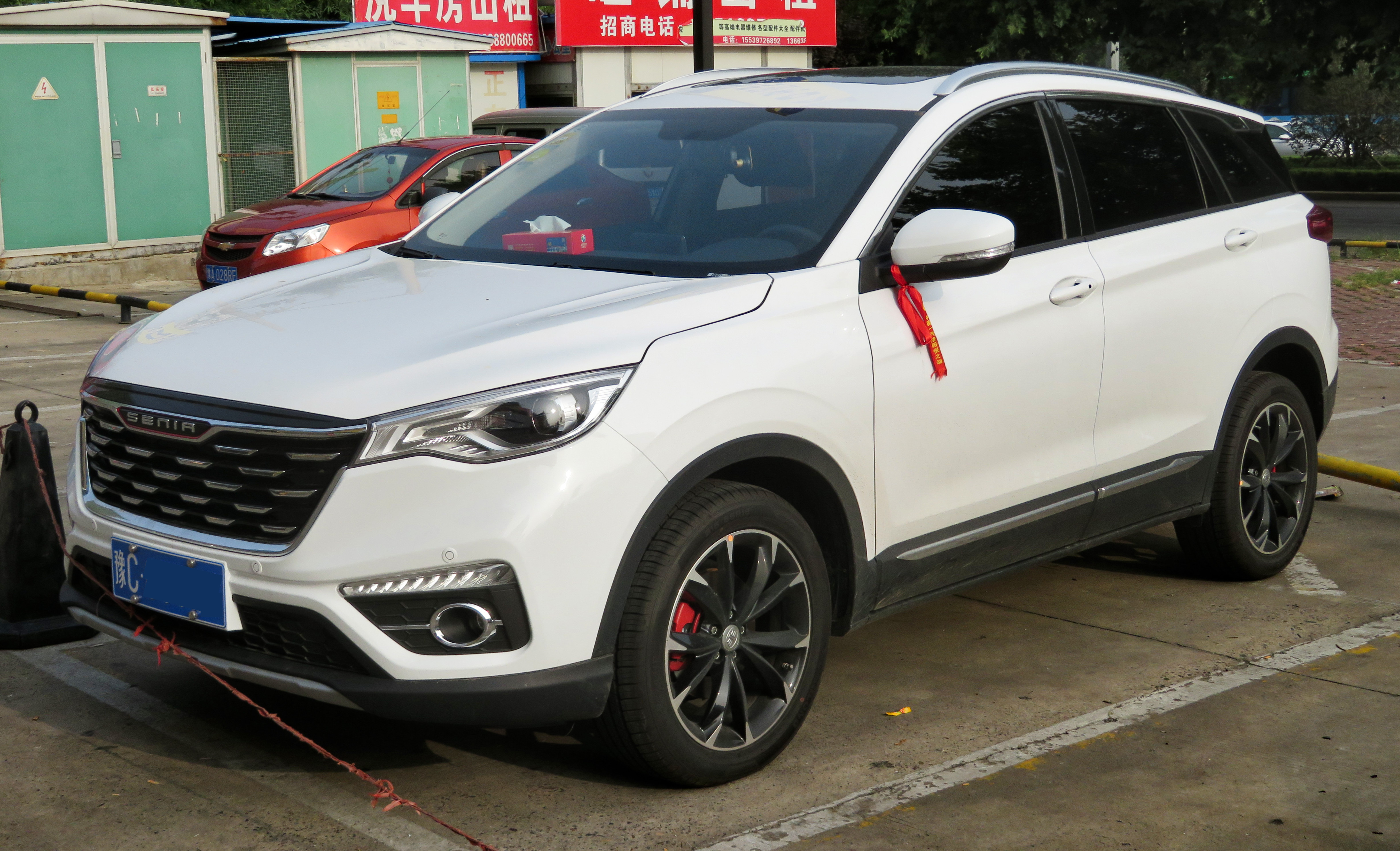 A 2018 FAW-Jilin Senia R9 photographed at Guanlinzhen, in Luoyang, Henan province, China